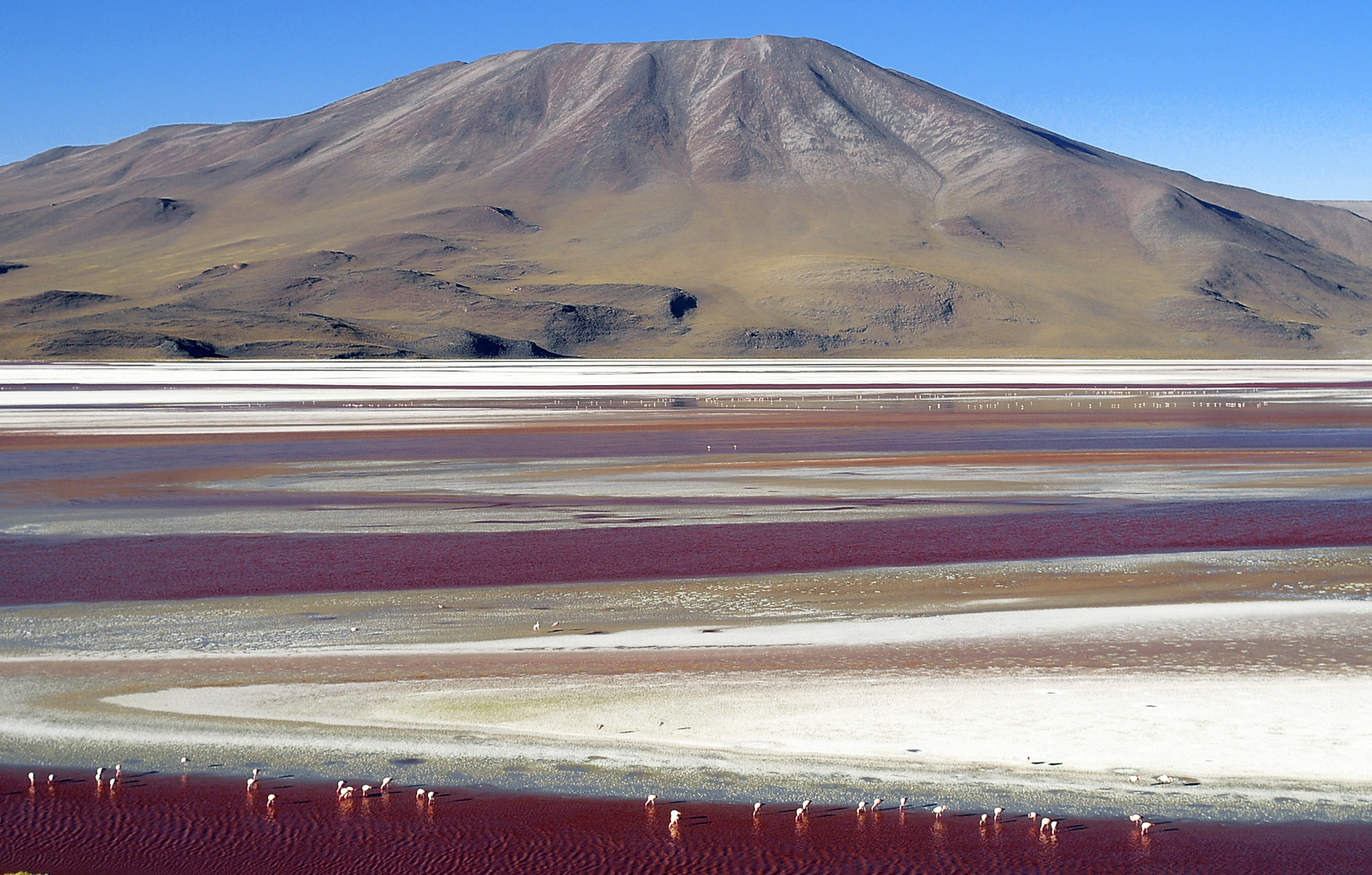 Flamingoes in the Laguna Colorada ("Red Pool"), in the background, the Laguna Colorada Mountain. Eduardo Avaroa Andean Fauna National Reserve, Potosí, Bolivia